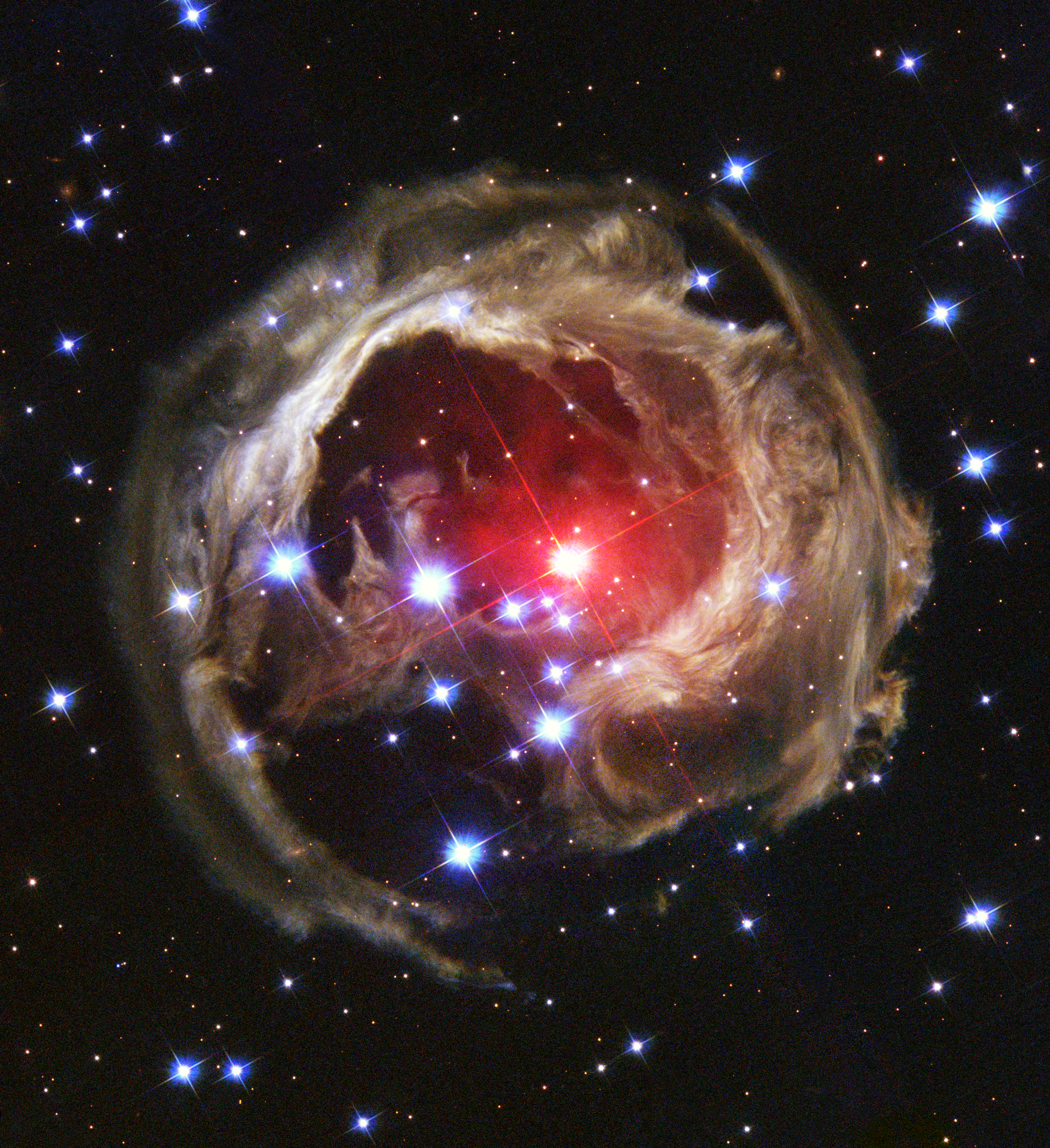 In January 2002, a dull star in an obscure constellation suddenly became 600,000 times more luminous than our Sun, temporarily making it the brightest star in our Milky Way galaxy. The mysterious star, called V838 Monocerotis, has long since faded back to obscurity. But observations by NASA's Hubble Space Telescope of a phenomenon called a "light echo" around the star have uncovered remarkable new features. These details promise to provide astronomers with a CAT-scan-like probe of the three-dimensional structure of shells of dust surrounding an aging star.